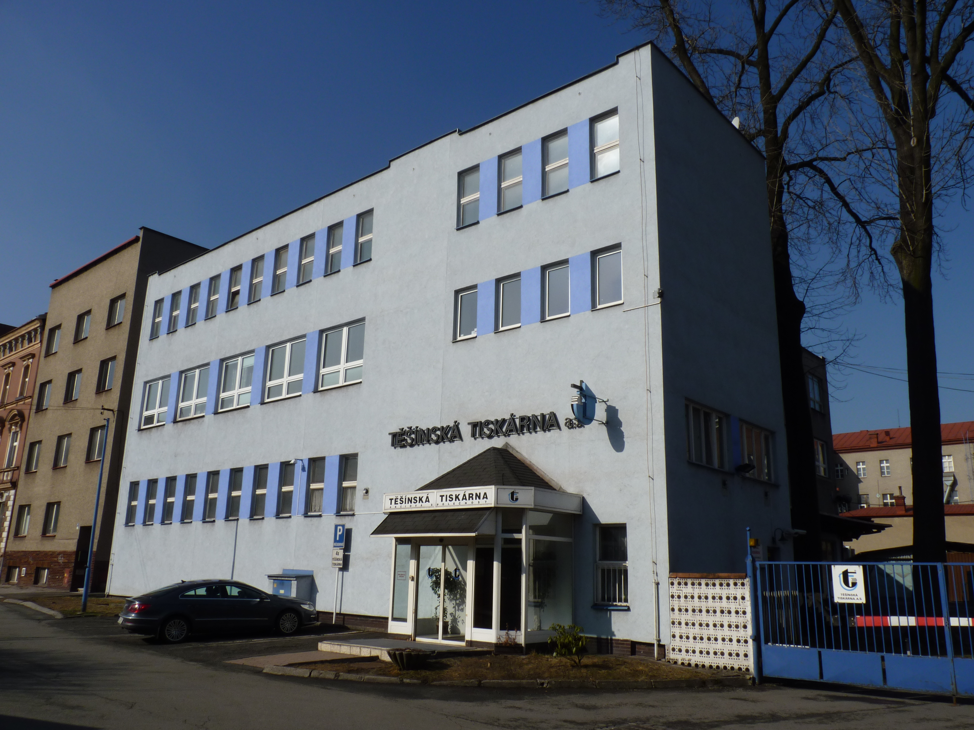 Český Těšín. Karviná District, Moravian-Silesian Region, Czech Republic